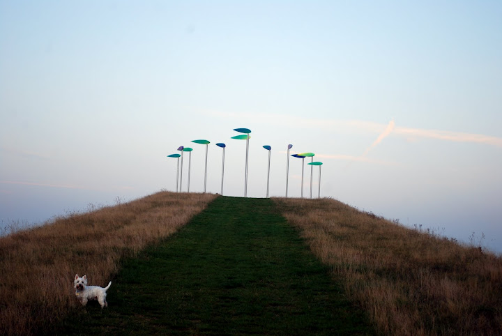 Green Winds, Orwell Park, Ipswich